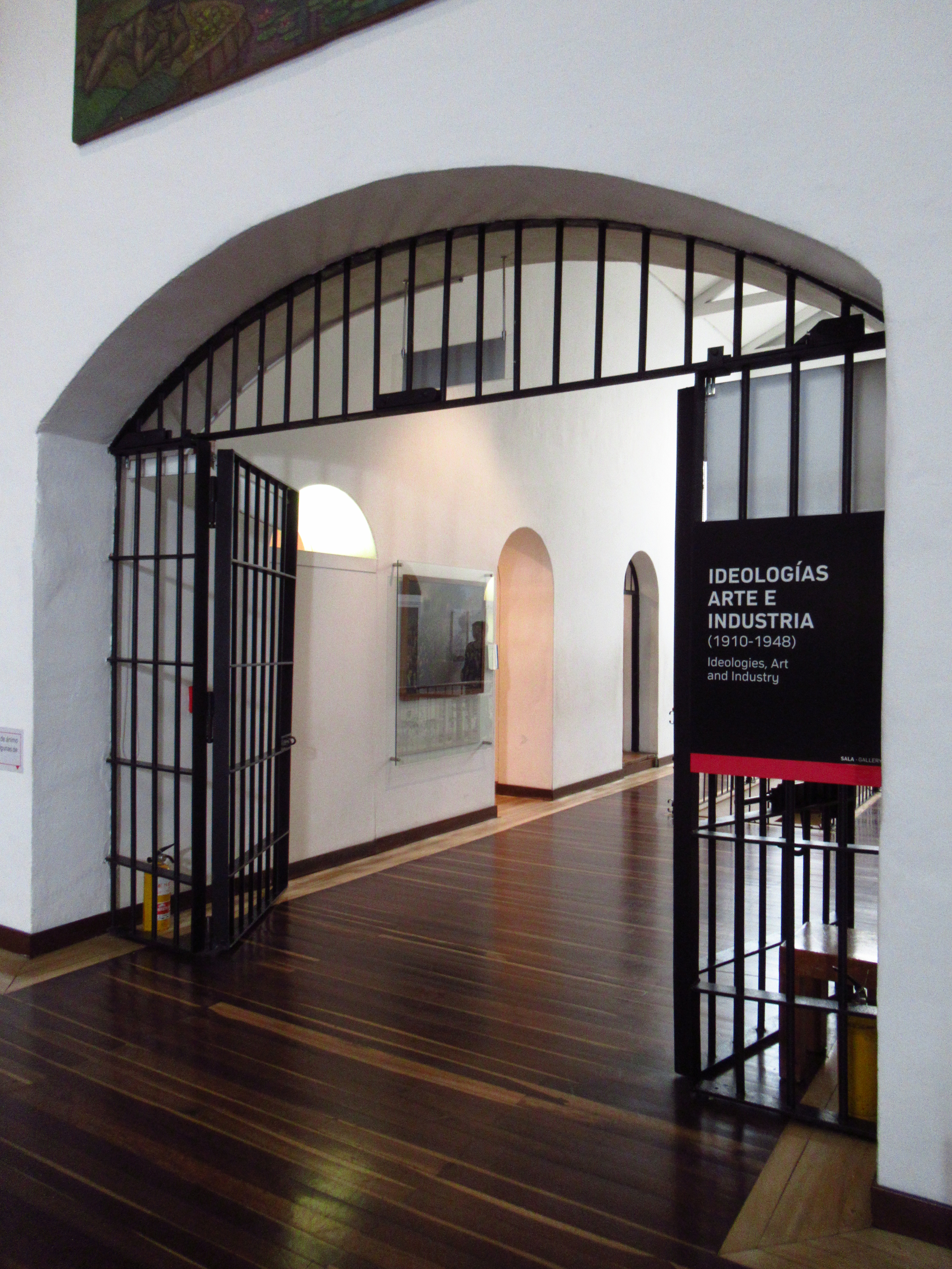 2019 in Bogotá